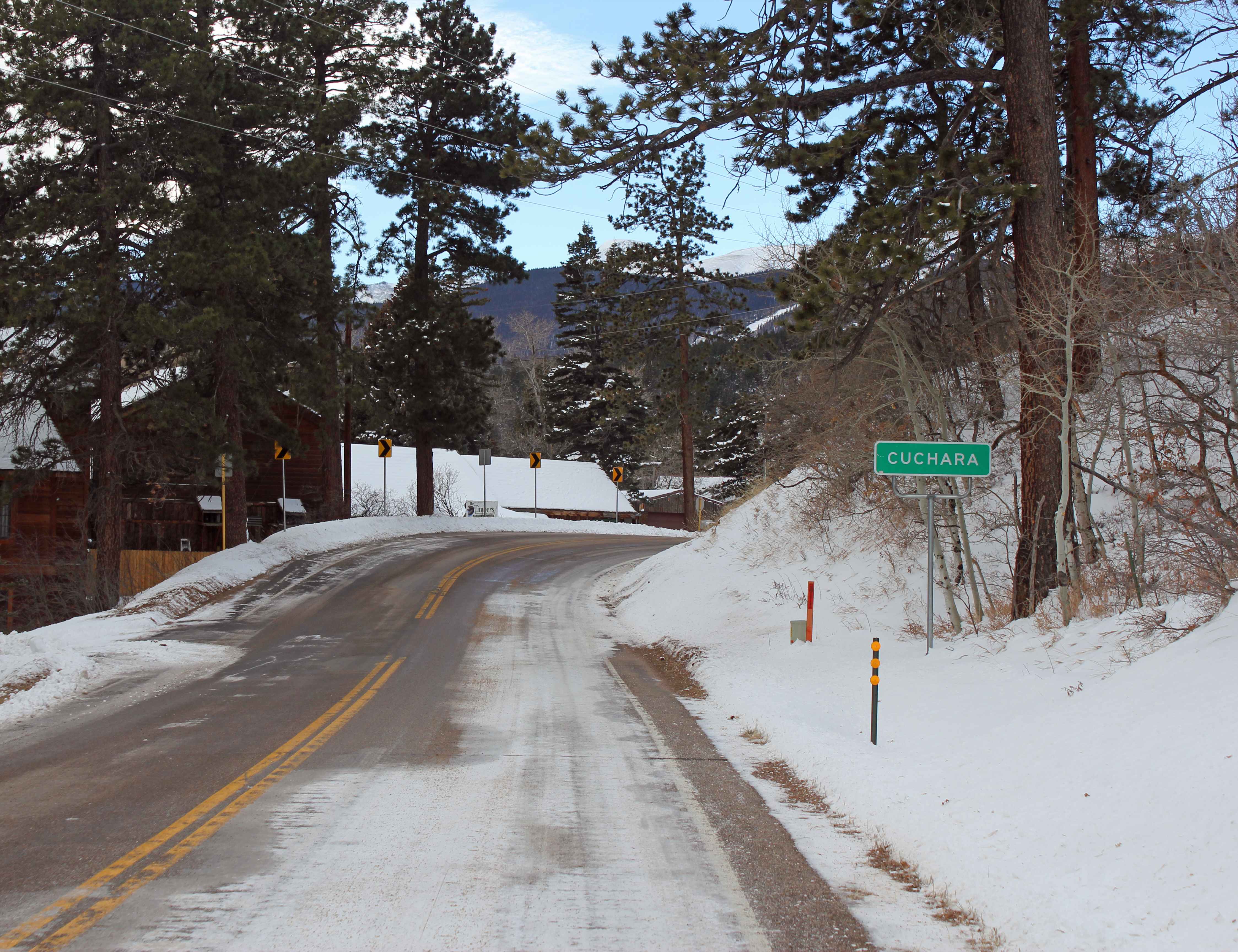 Colorado State Highway 12 as it enters Cuchara, Colorado.